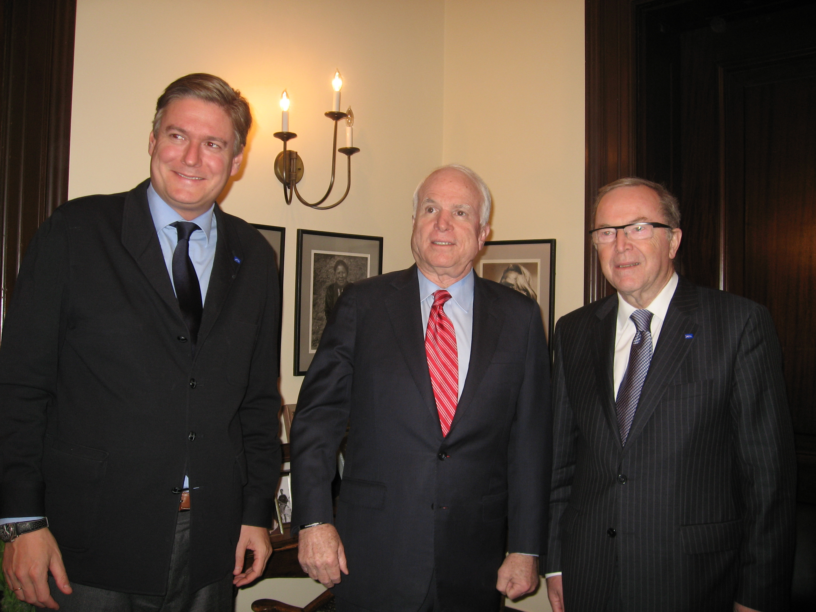 EPP in the USA